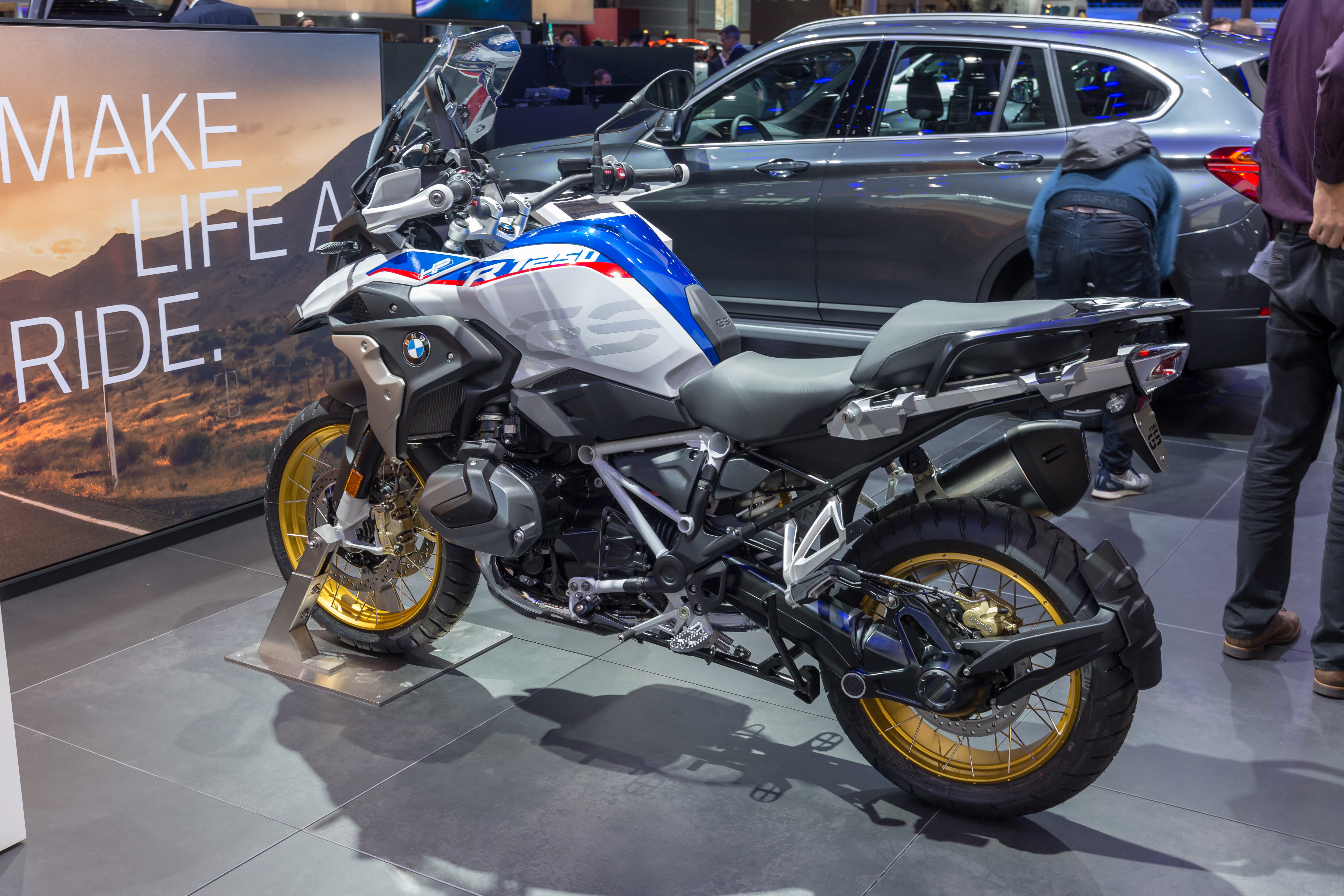 BMW R 1250 GS HP, Mondial Paris Motor Show 2018